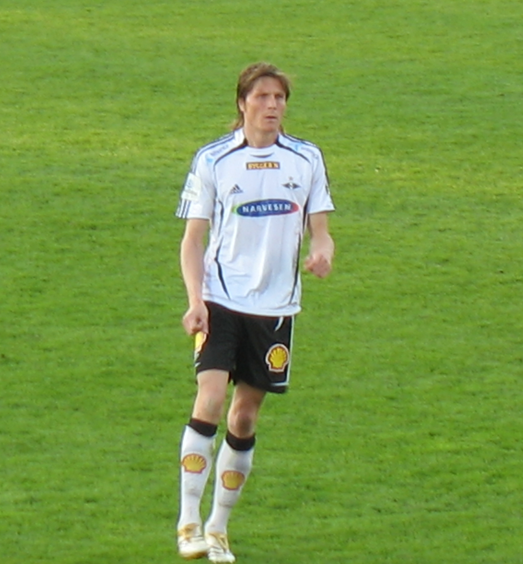 Norwegian footballer Frode Johnsen.